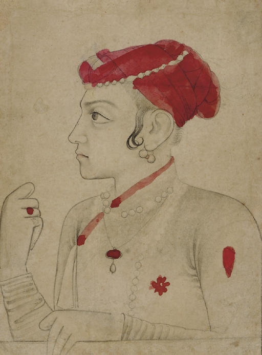 A drawing of Sulaiman Shikoh, a son of Dara Shikoh; Mughal period, later 1600s (downloaded Nov. 2007)